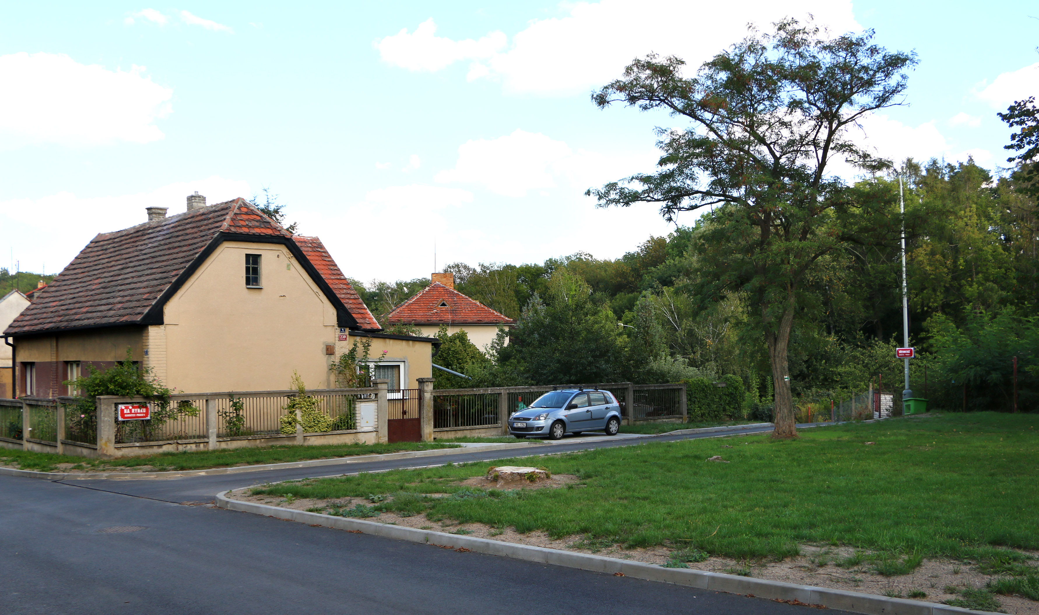 East part of Na rynku street, Prague.